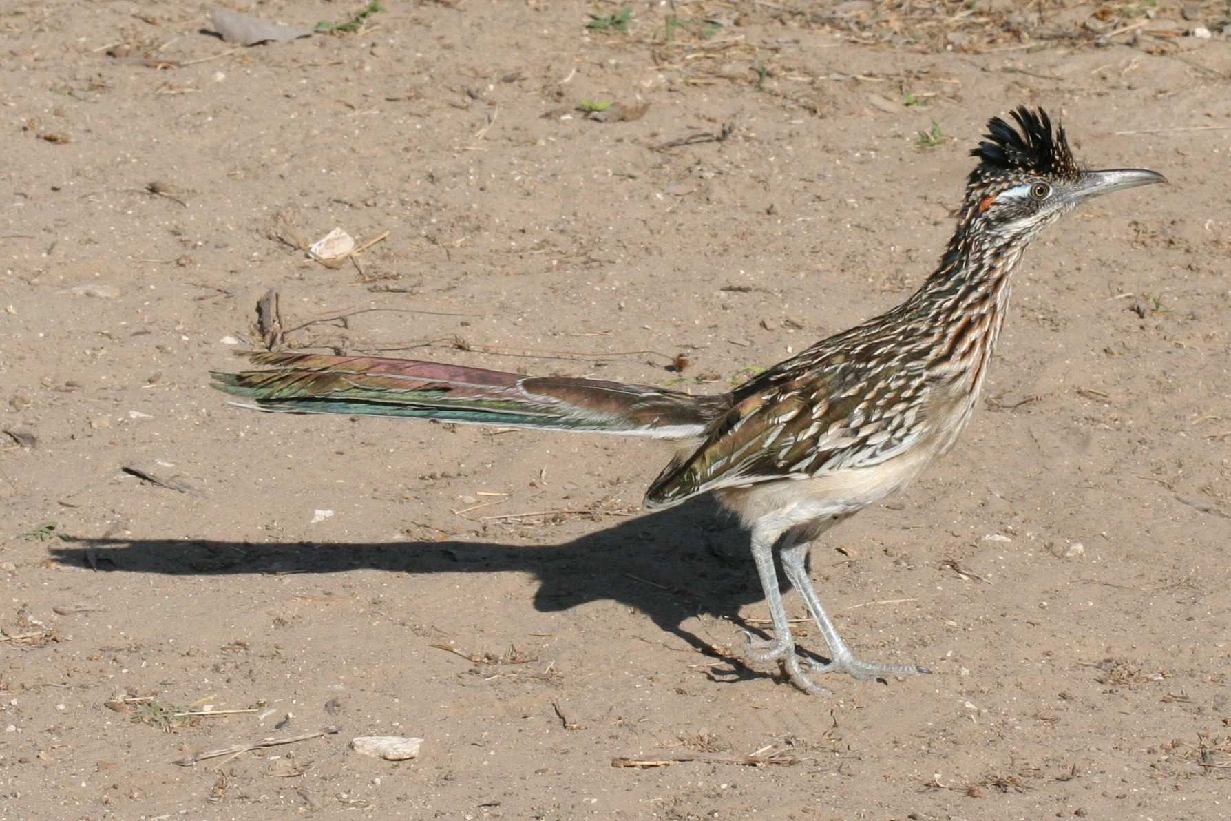 Greater Roadrunner Geococcyx californianus at Falcon State Park, Texas